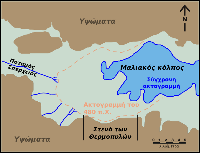 Map of Thermopylae area with modern shoreline and reconstructed shoreline of 480 BC. Loosely based on figure 3.19 in Geoarchaeology: The Earth-science Approach to Archaeological Interpretation, p. 96. George Robert Rapp, Christopher L. Hill. Yale University Press, 2006. ISBN 0300109660